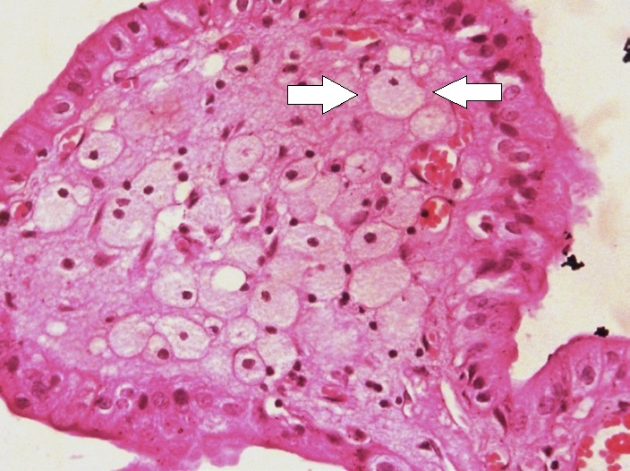 Histopathology of cholesterolosis of the gallbladder, with annotated foam cell